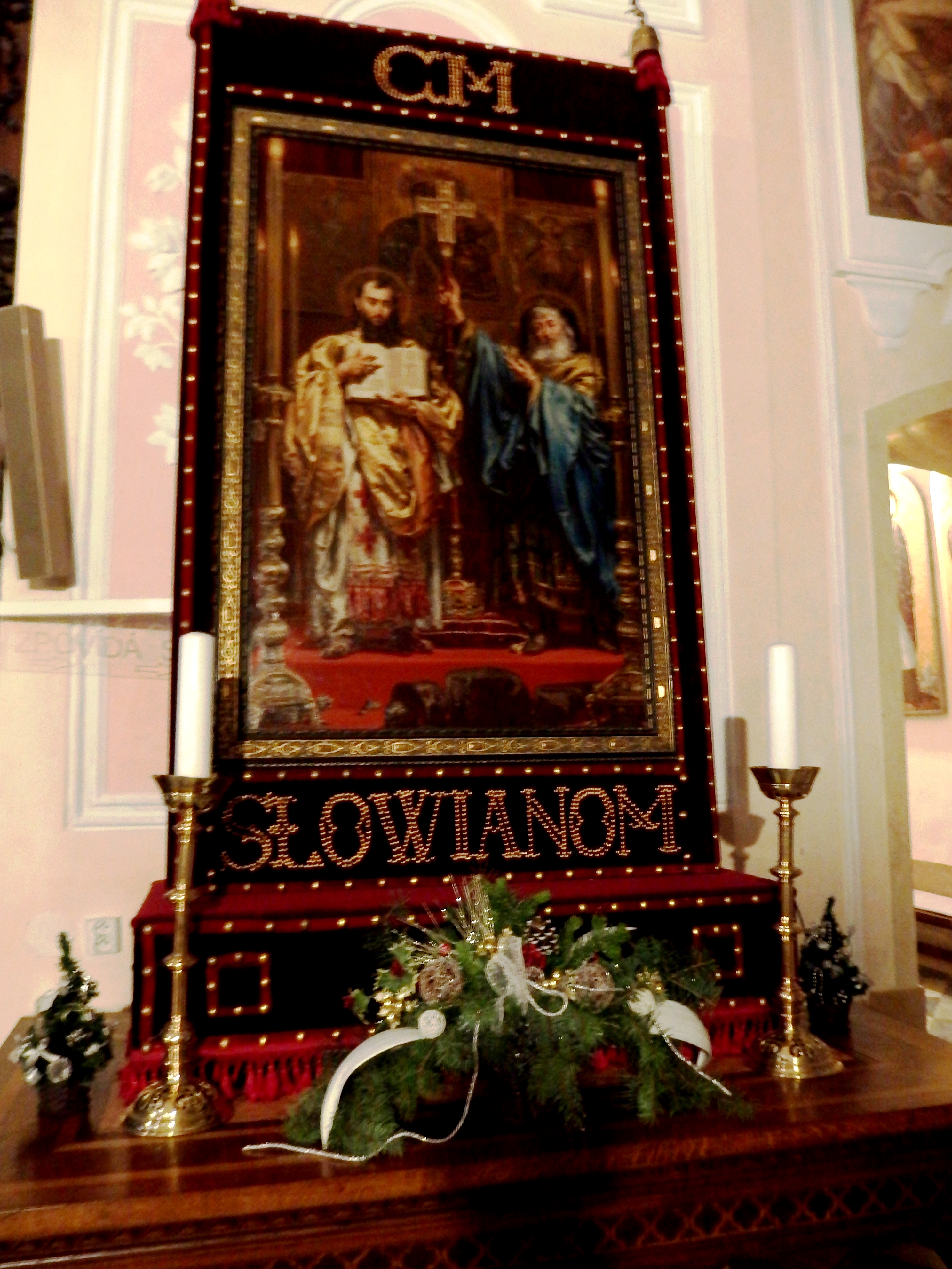 Velehrad, in Uherské Hradiště District, Czech Republic. The Basilica of Assumption of Mary and St. Cyrillus and Methodius, interior.